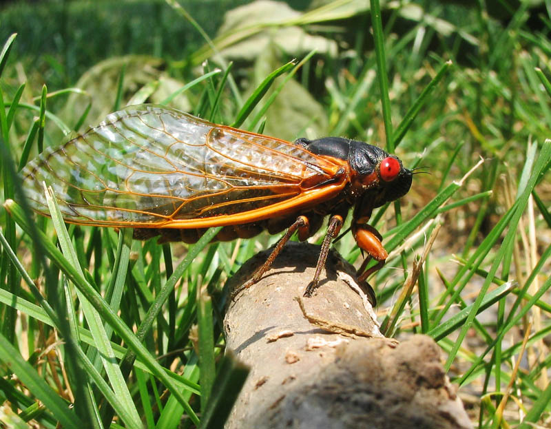 A 17 year Cicada from brood X 2004 - Princeton, NJ.